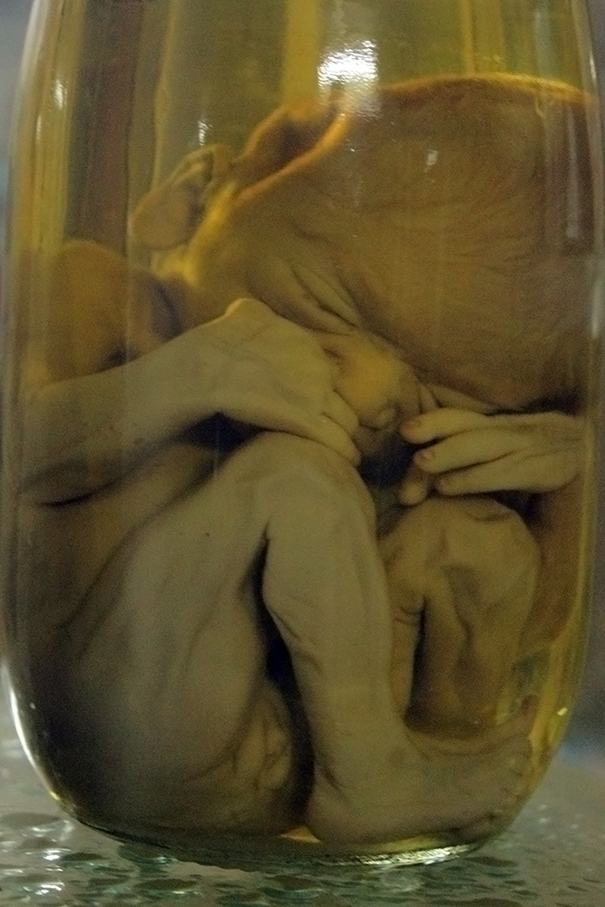 The Natural History Museum of Isfahan is located in a building from the Timurid era in the 15th century. The building includes some large halls and a veranda, which are decorated by muqarnas and stucco